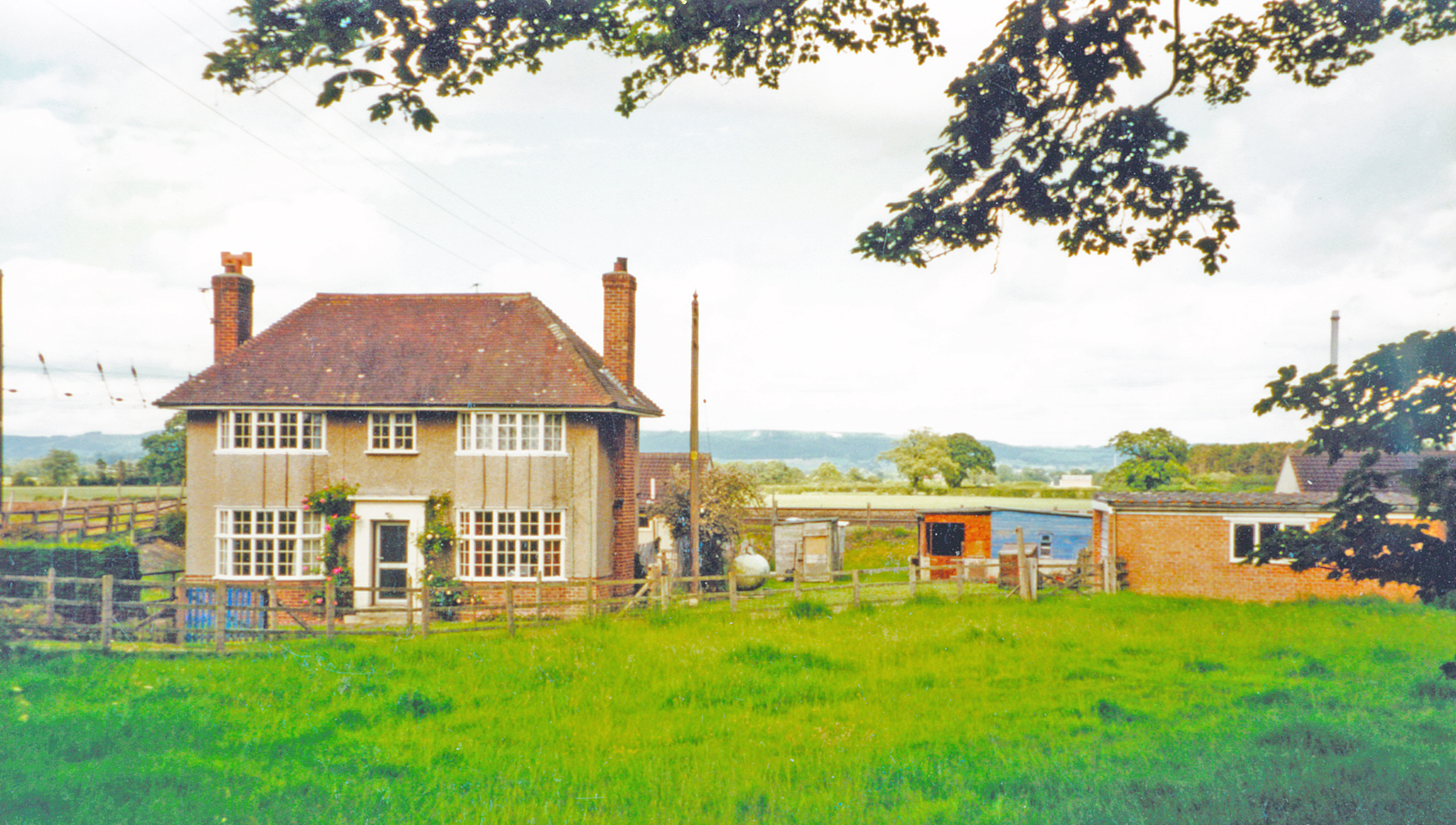 Site of former Sessay station, ECML 2002. View eastward from the Dalton - Sessay road. Sessay station was on the ex-NER York (to right) - Northallerton (to left) section of the East Coast Main Line and was completely rebuilt during the widening works here in World War Two, completed 5/43. The station was closed to passengers from 15/9/58, to goods from 10/8/64, but it is possible that this house - although rather grand, had been the station house, because the architecture is very similar to that of other stations rebuilt during the earlier widenings along this stretch carried out in the 1930s